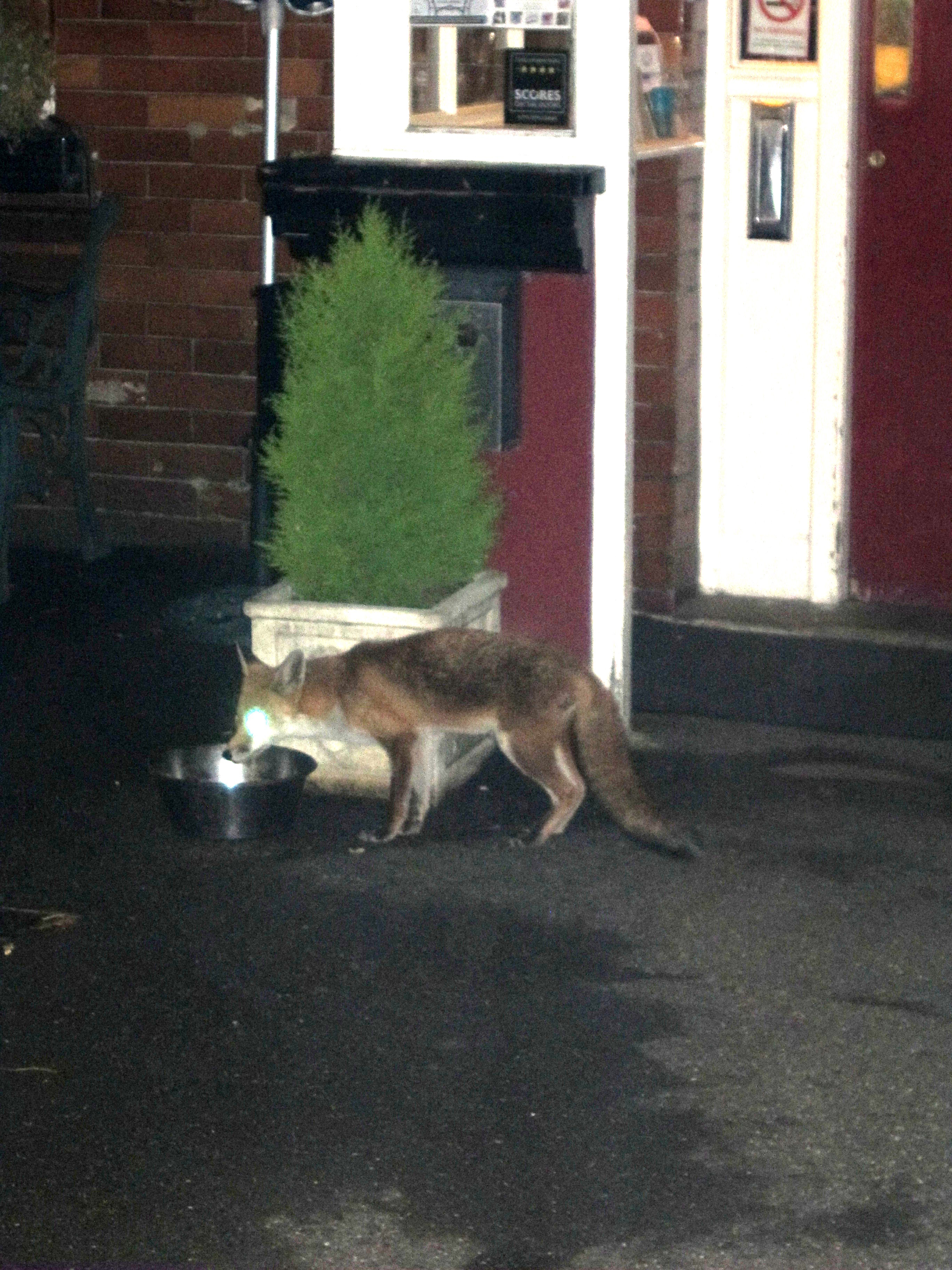 This is one of the foxes that frequents the Fox Inn in Hanwell W7 London. Usually seen on quite mid-week evenings.